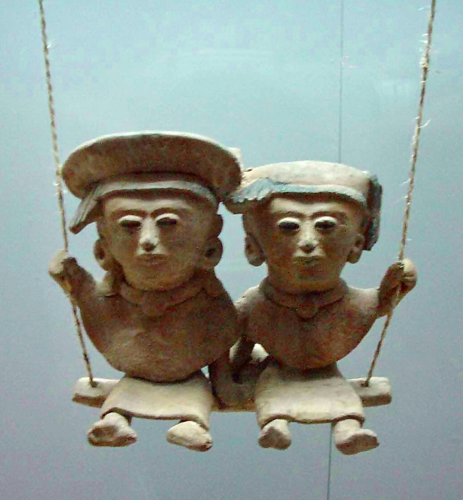 Swinging figurines of the Remojadas style.